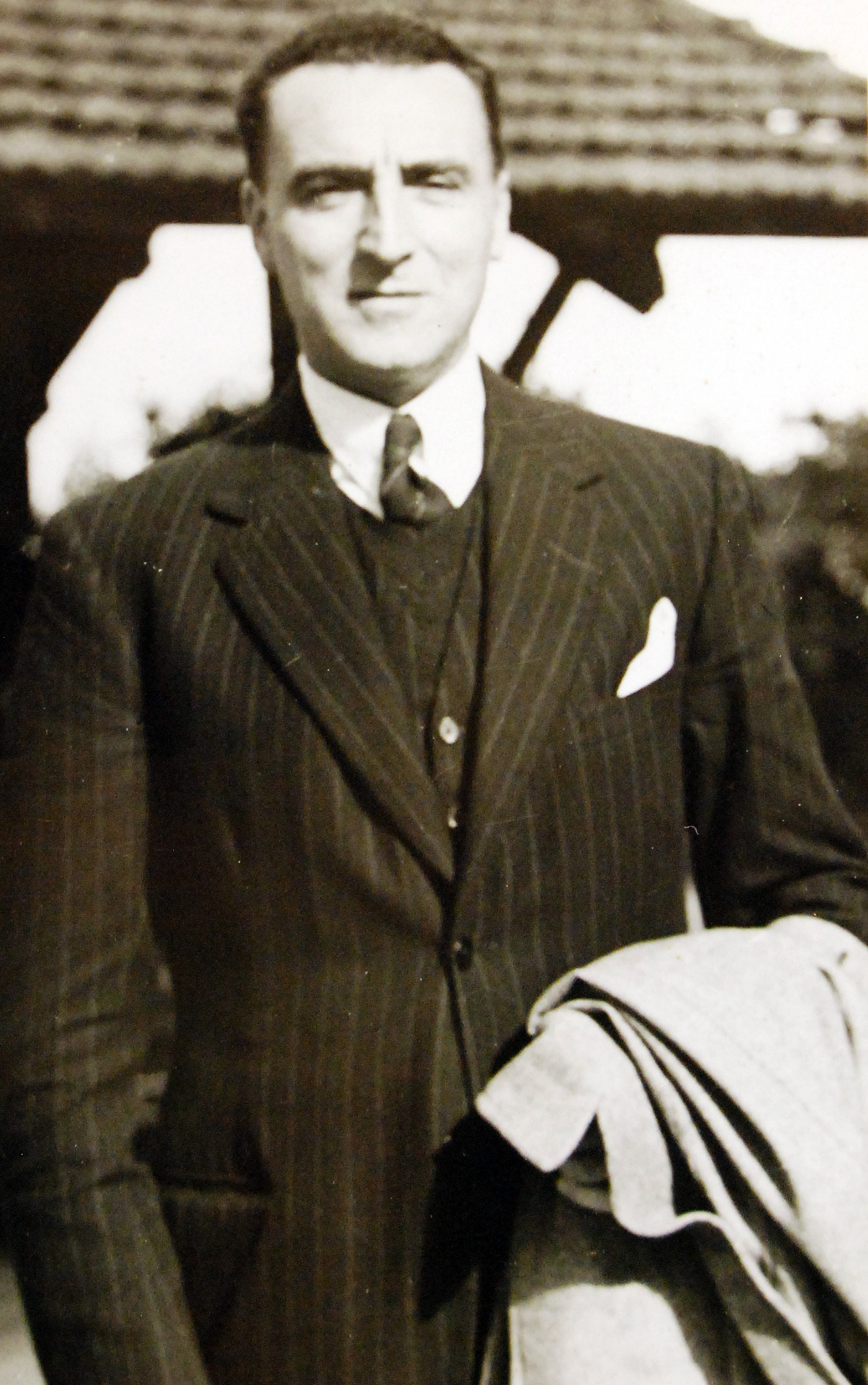 Lot 11611-3: Liberation of France, World War II. Member of the French Committee of National Liberation. Shown: Commissioner of the Navy, Louis Jacquinot, possibly November 1944. Office of War Information Photograph. (2016/02/25)